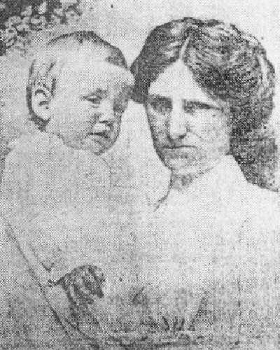 Brave Nurse and the Babe She Saved: Alice Cleaver with Trevor Allison, survivors of the sinking of the RMS Titanic after disembarking from the RMS Carpathia